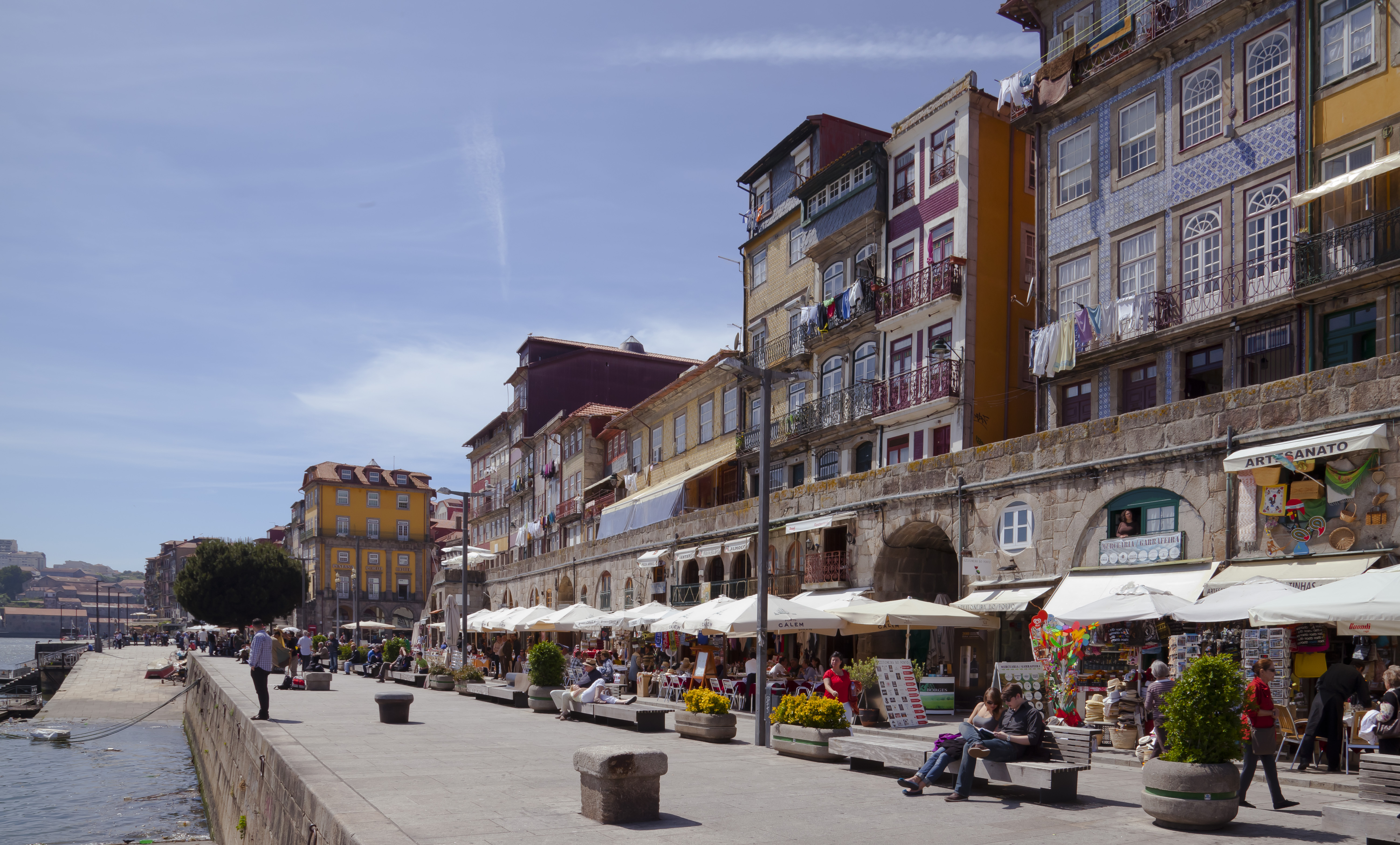 Cais da Ribeira, Porto, Portugal